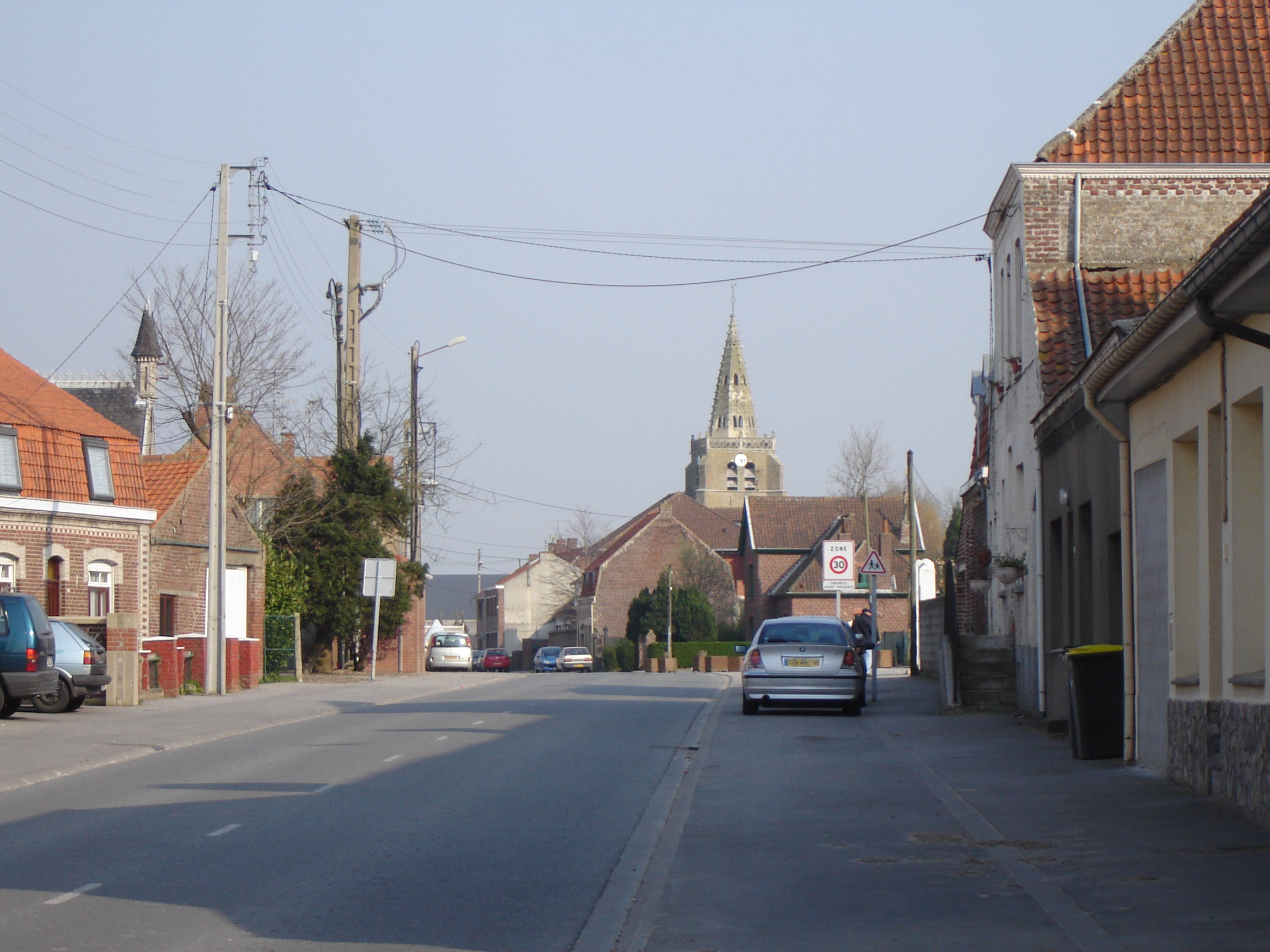 Eglise Saint-Martin in Looberghe, Nord, Nord-Pas-de-Calais, France